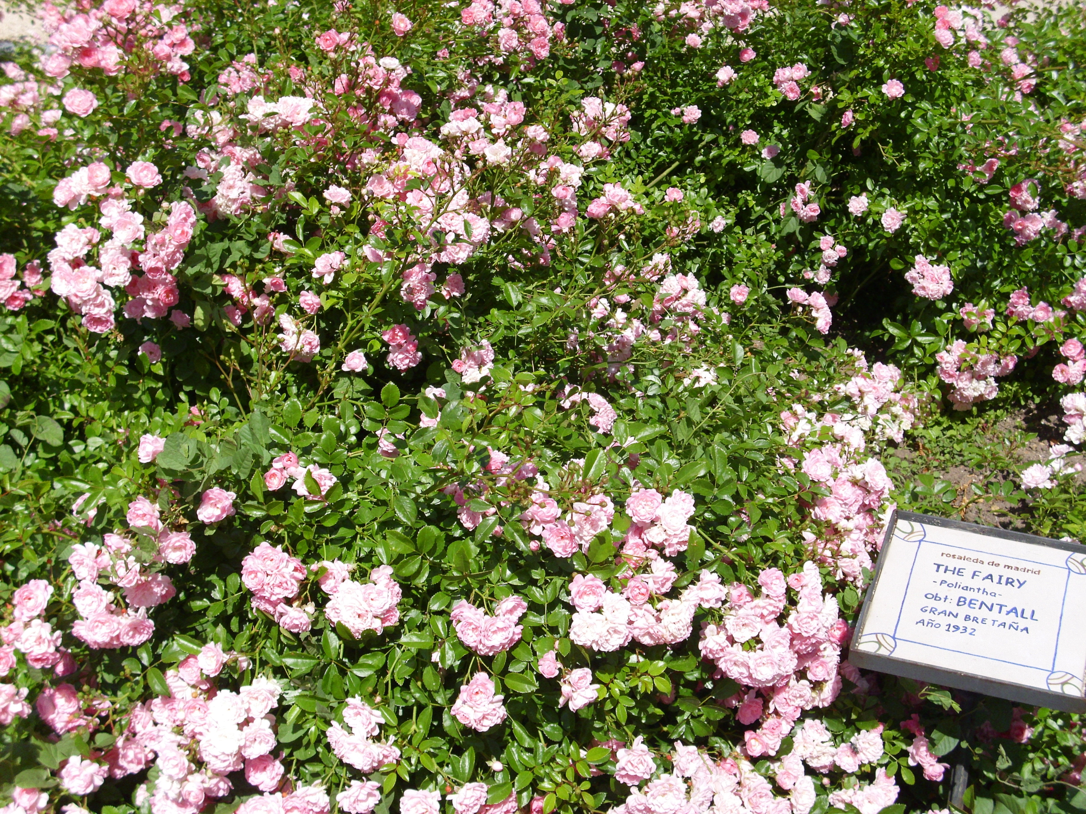 Rosa 'The Fairy' Polyantha Bentall 1932, in the "Rosaleda del Parque del Oeste" in Madrid. Identified by sign.